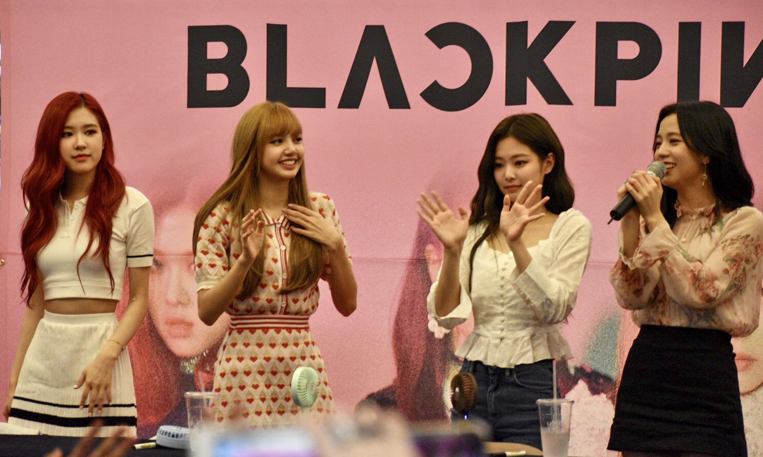 BLACKPINK fansign event at the AK Plaza in Bundang on June 24, 2018.